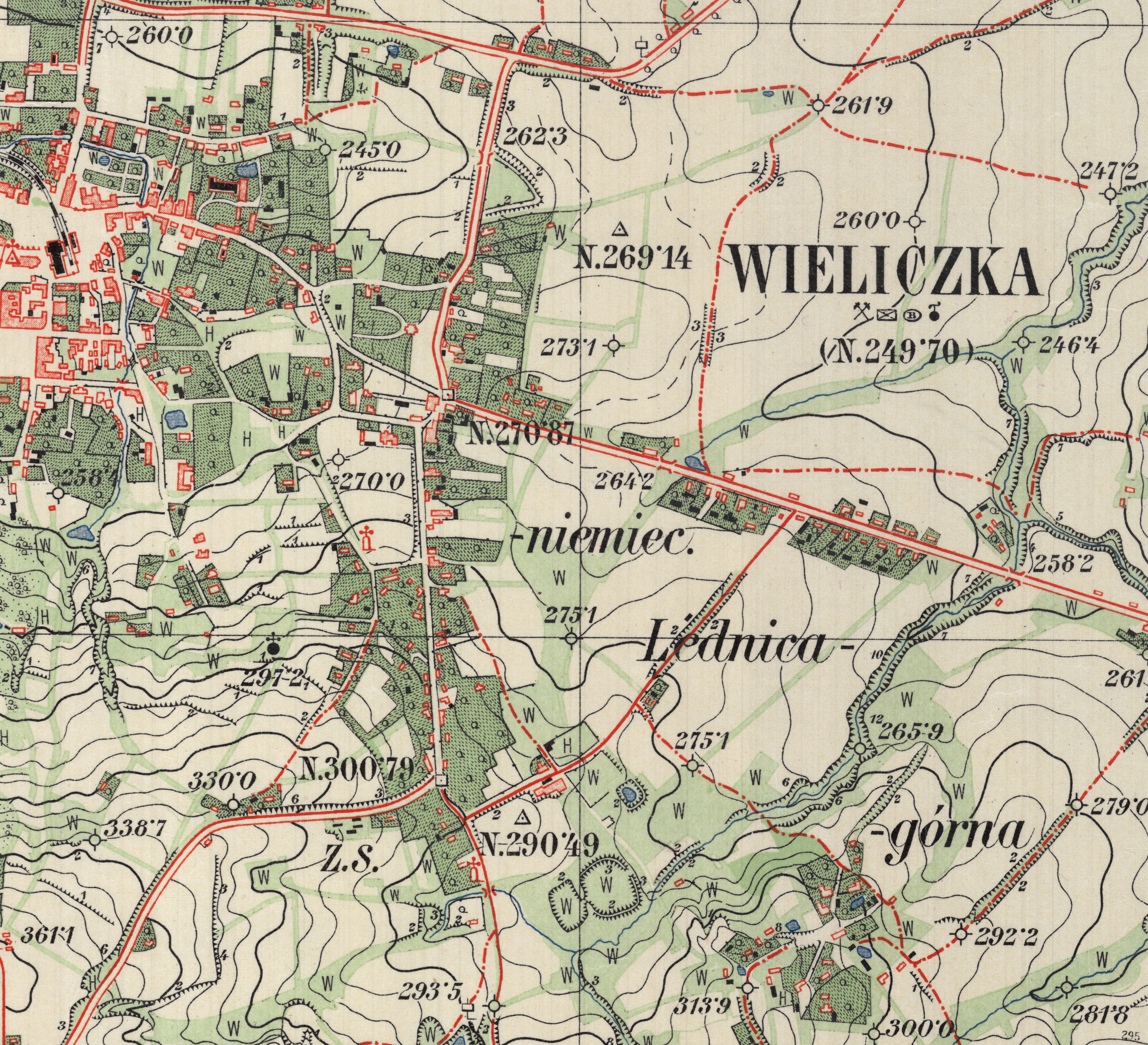 German Settlement of Deutsch Lednica from 1784 near Wieliczka, Galicia, Poland